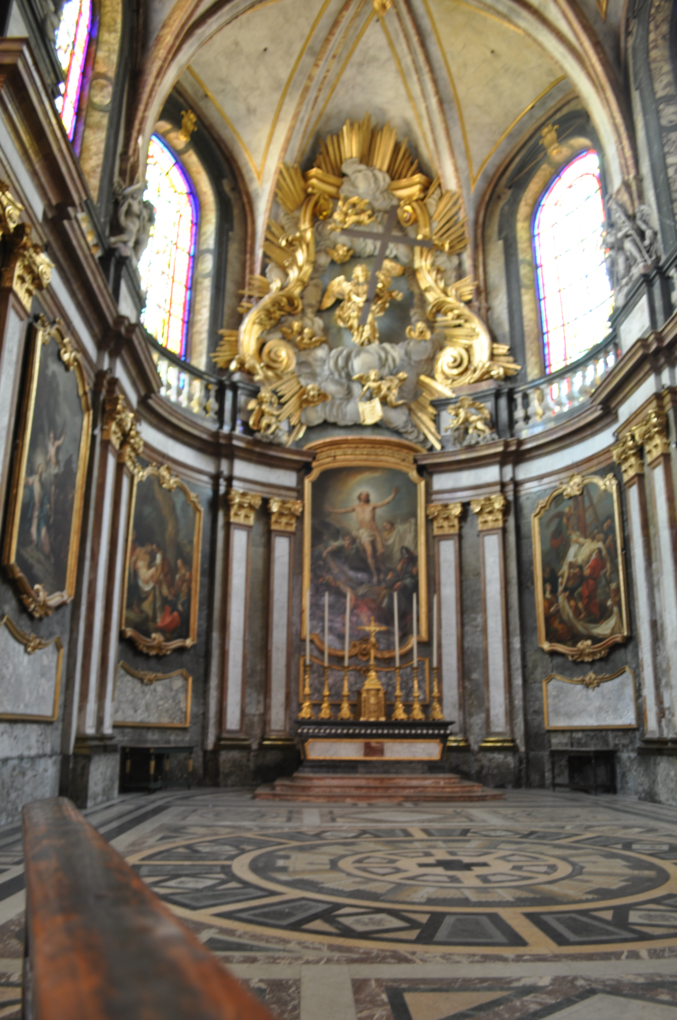 Apse of the Saint-Suaire of the cathédrale Saint-Jean de Besançon (Franche-Comté)